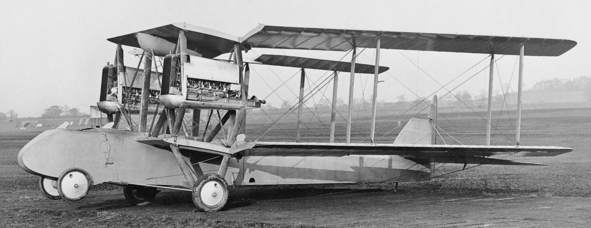 Airco D.H.3 (Beardmores) from Flight page 501 of 23 September 1960.